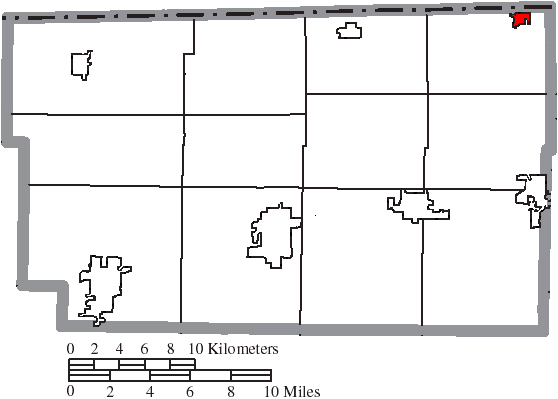 Map of the municipal and township boundaries of Fulton County, Ohio, United States, as of the 2000 census, with the location of the village of Metamora highlighted. Township borders are shown only in unincorporated areas in order to differentiate incorporated and unincorporated areas more clearly.